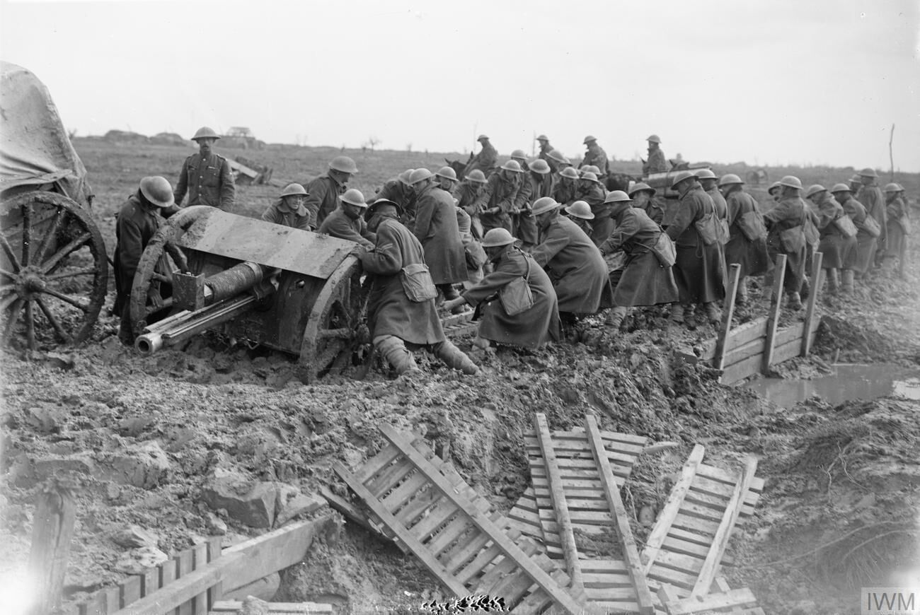 IWM caption : "THE THIRD BATTLE OF YPRES. Battle of Poelcappelle: Manhandling an 18-pounder field gun through the mud near Langemarck, 16 October 1917." Comment : The Battle of Poelcappelle was fought on 9th October. If the date of 16th October is correct, this may in fact show a gun being brought up for the Second Battle of Passchendaele which began on 26th October.